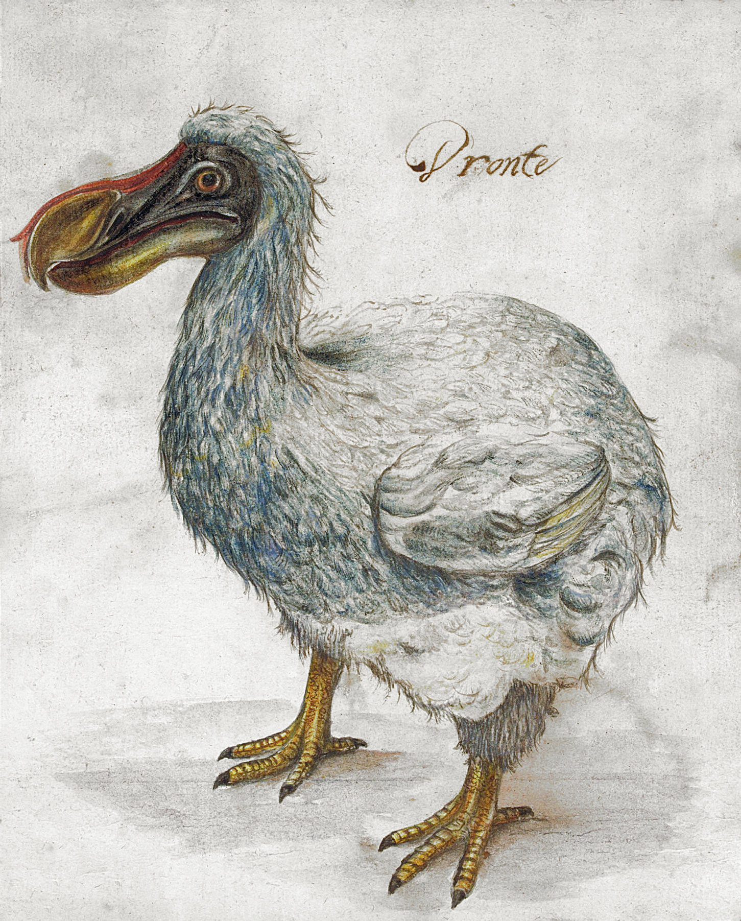 Dutch School, 17th Century. A dodo with inscription 'Dronte'. Traces of black chalk, watercolour, gum arabic, brown wash framing lines. 10¼ x 8 3/8 in. (26 x 21 cm.) The inscription on this drawing, 'Dronte', was the Dutch 17th-century name for the dodo, although at this period it was also used in a number of other languages including French and Italian.